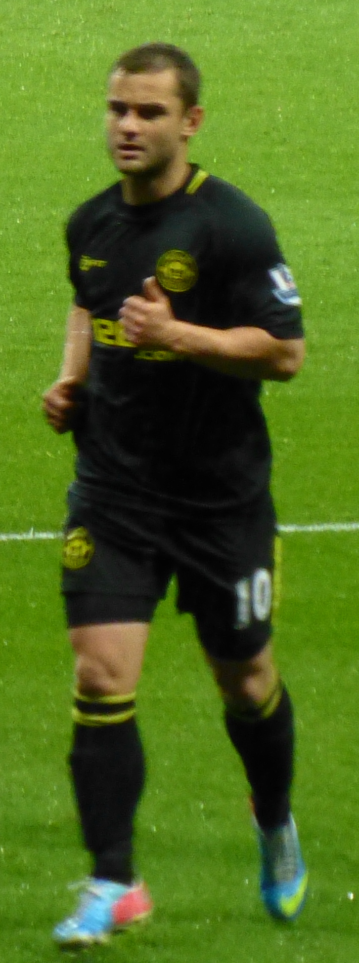 Shaun Maloney playing for Wigan in Premier League.